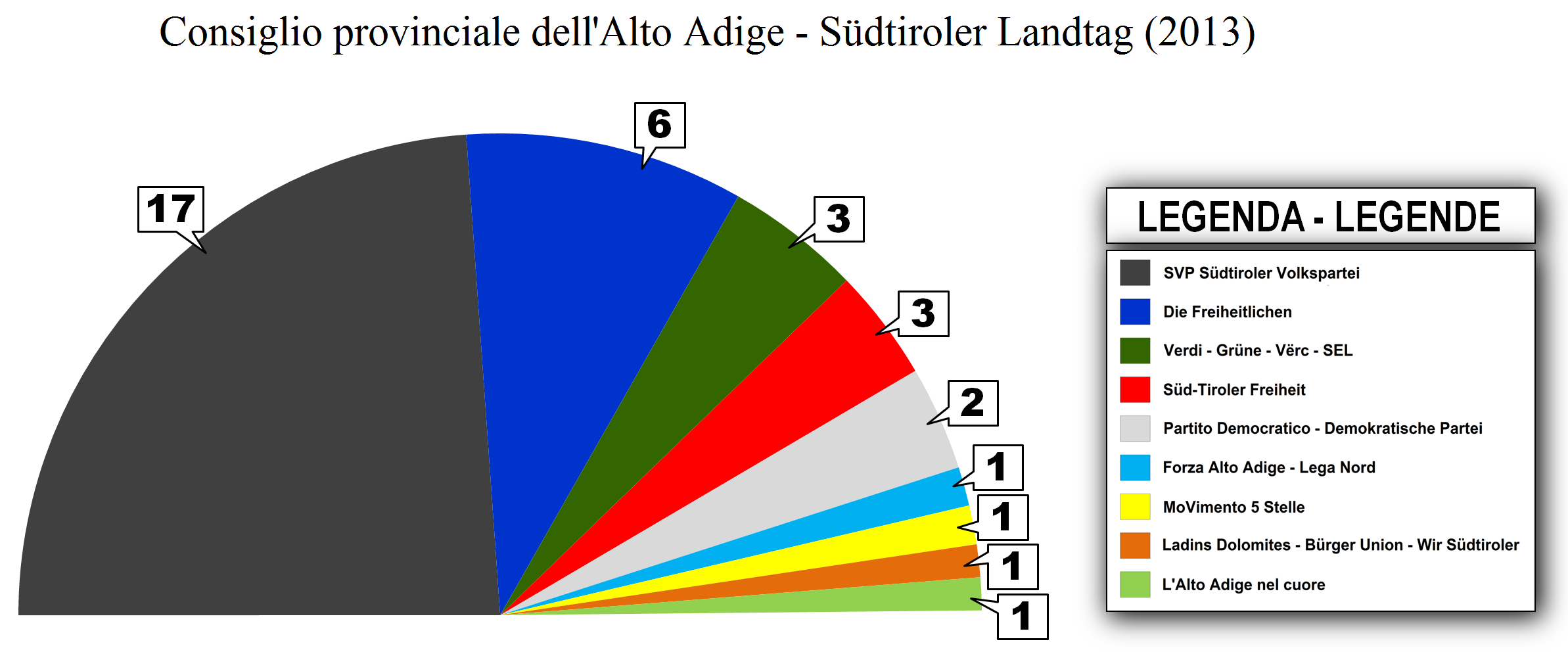 Party distribution in the parliament of South Tyrol after the 2013 elections